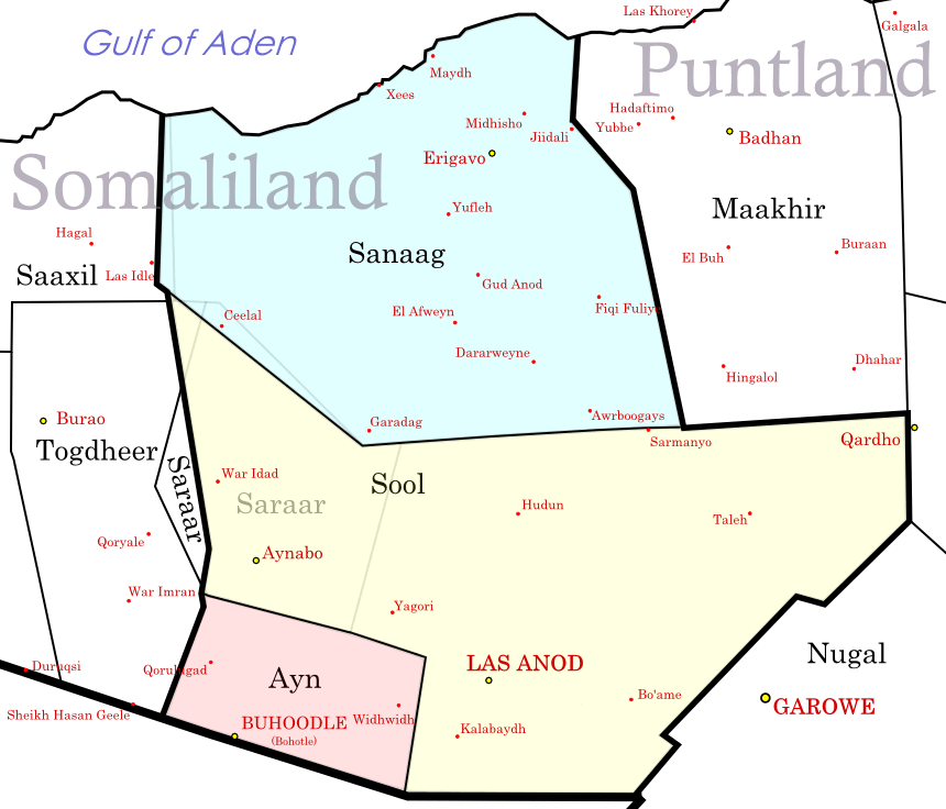 Administrative devisions of Khaatumo State of Somalia